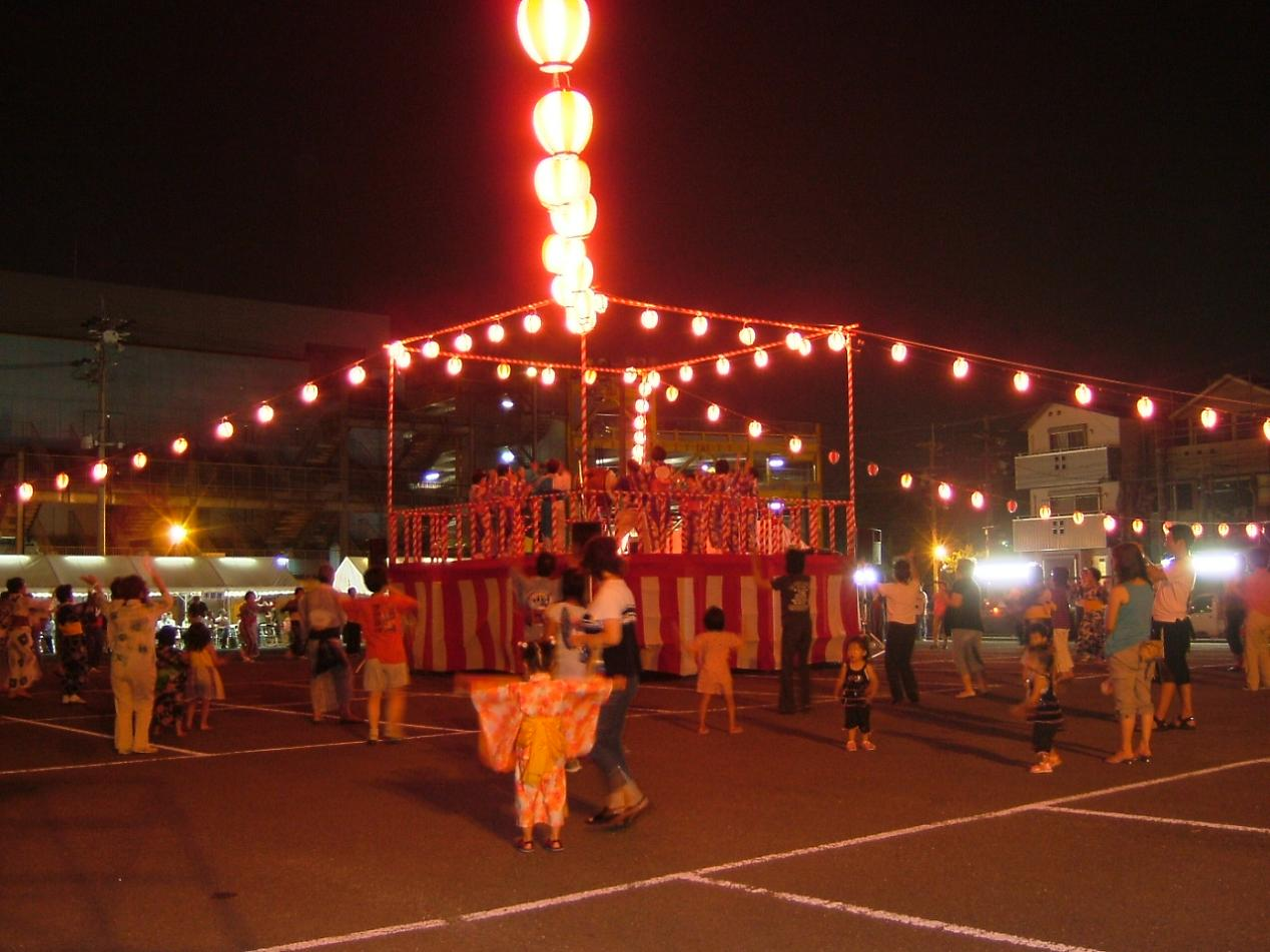 Bon Odori photo by Gnsin